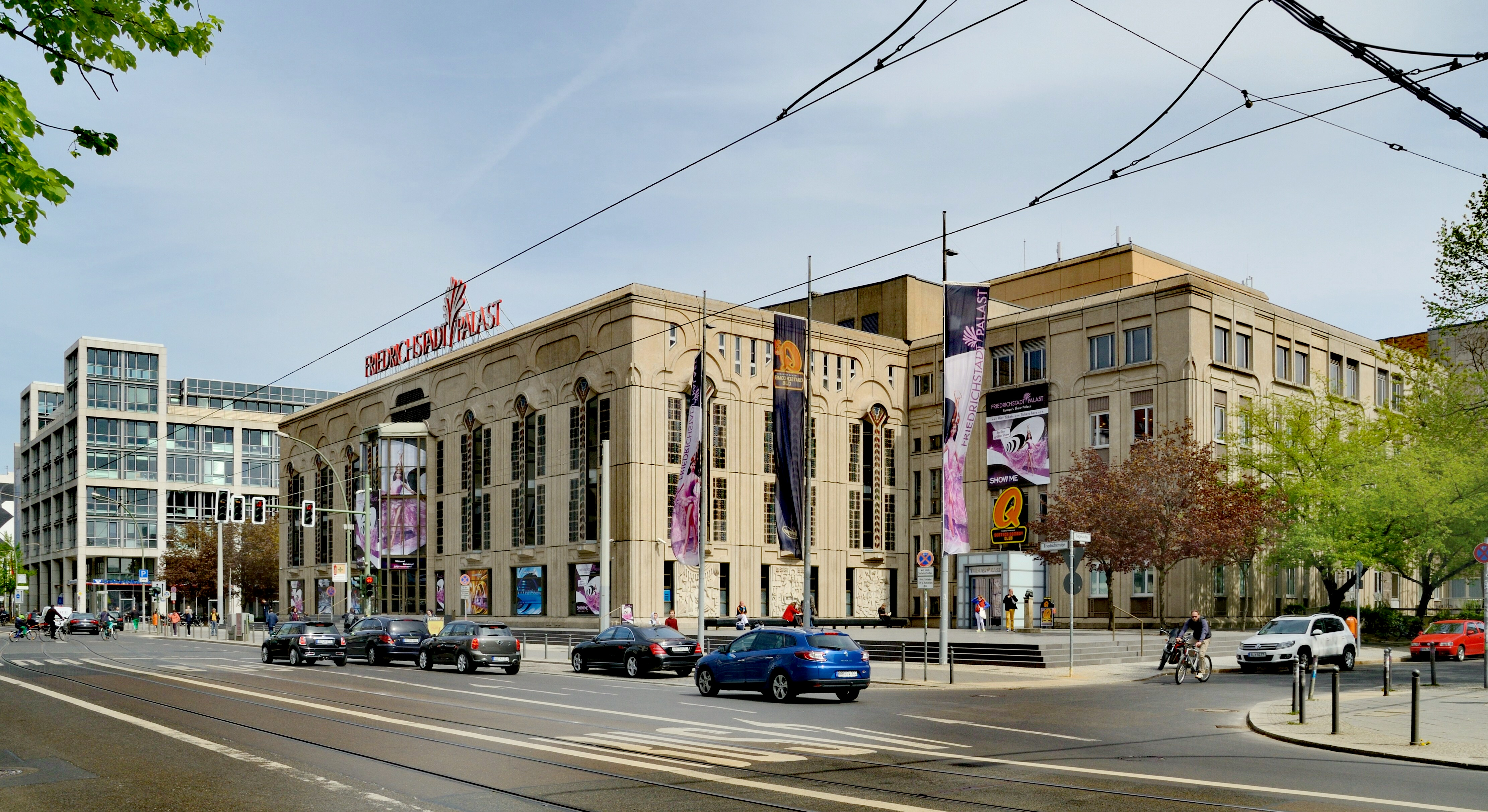 Berlin: Friedrichstadtpalast